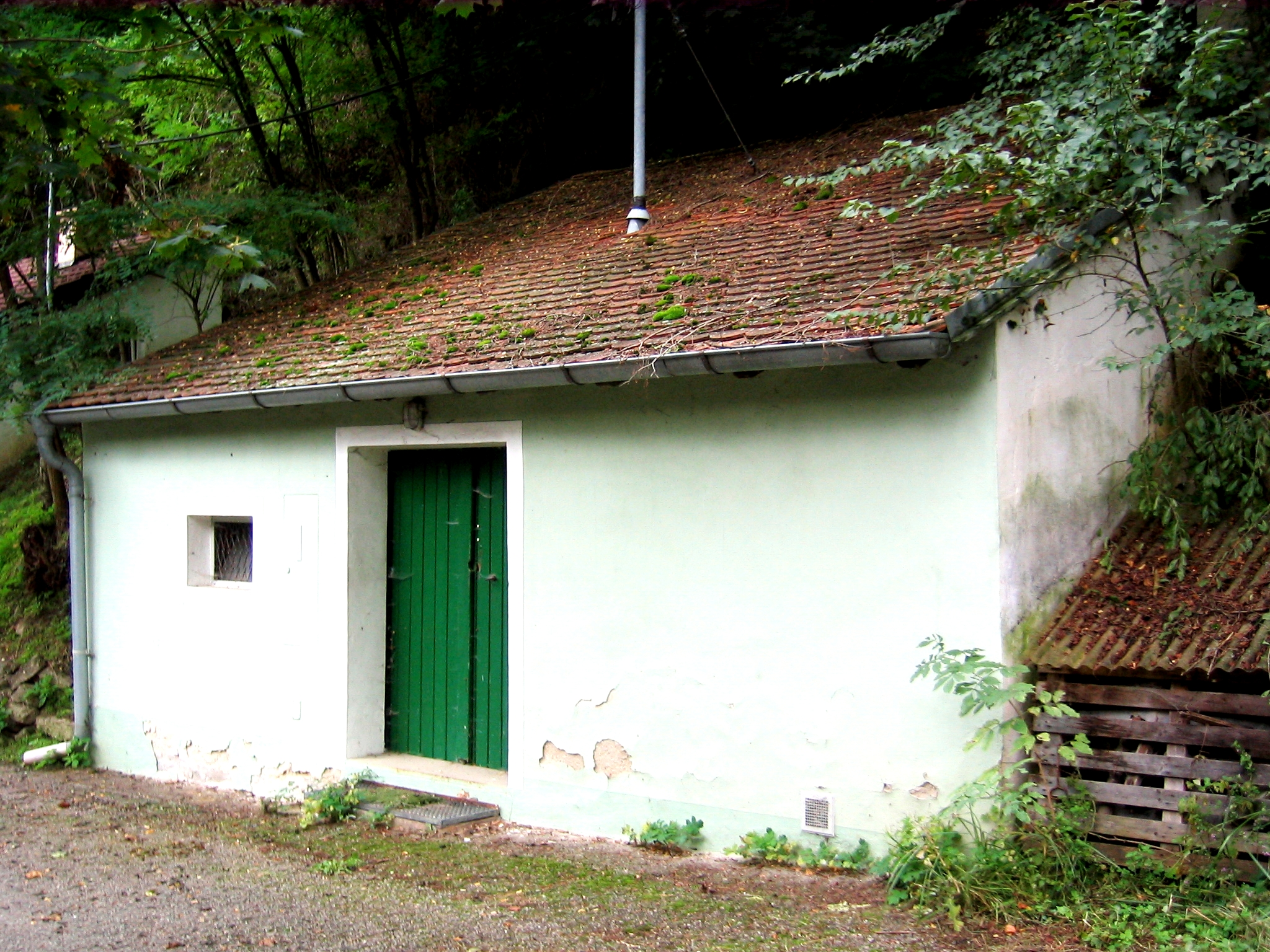 Mühlbergkellergasse Sitzendorf Objekt 13